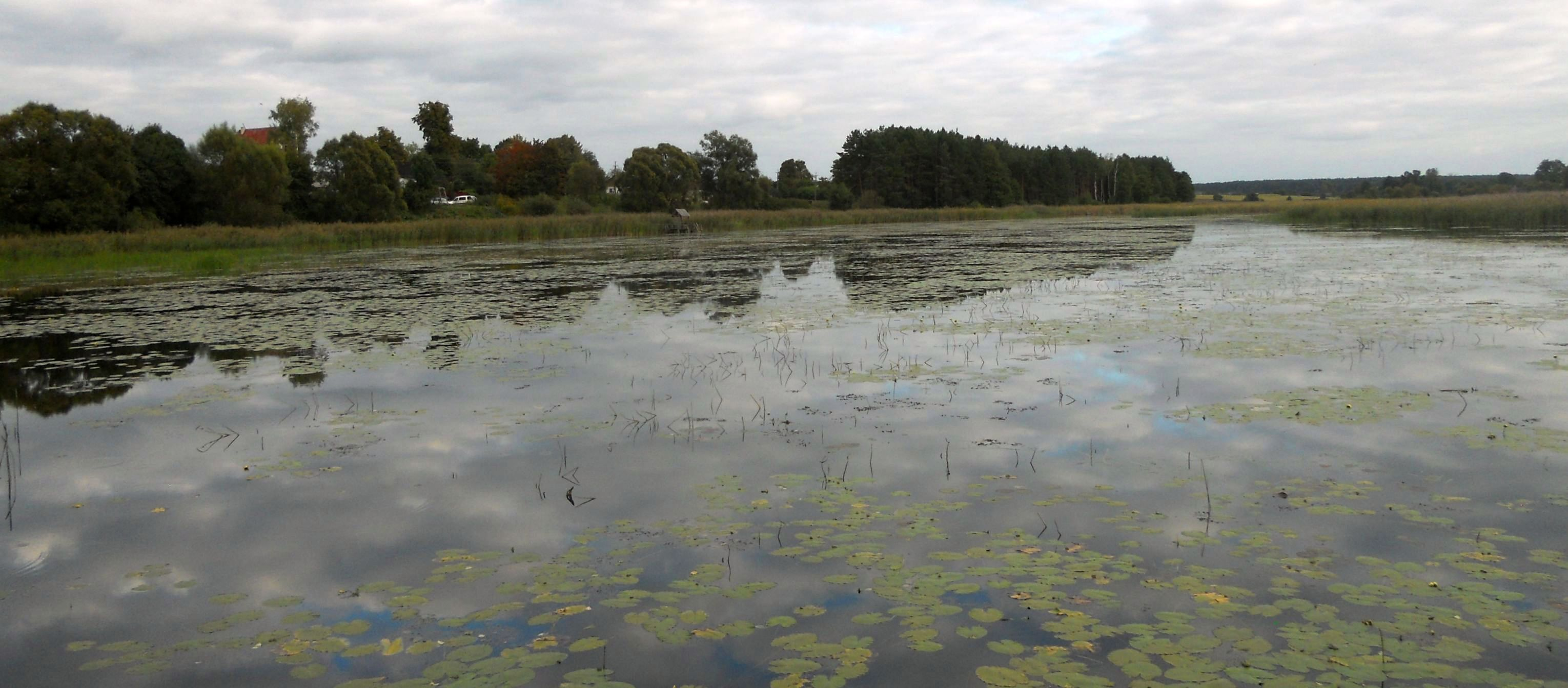 Bilotyn pond